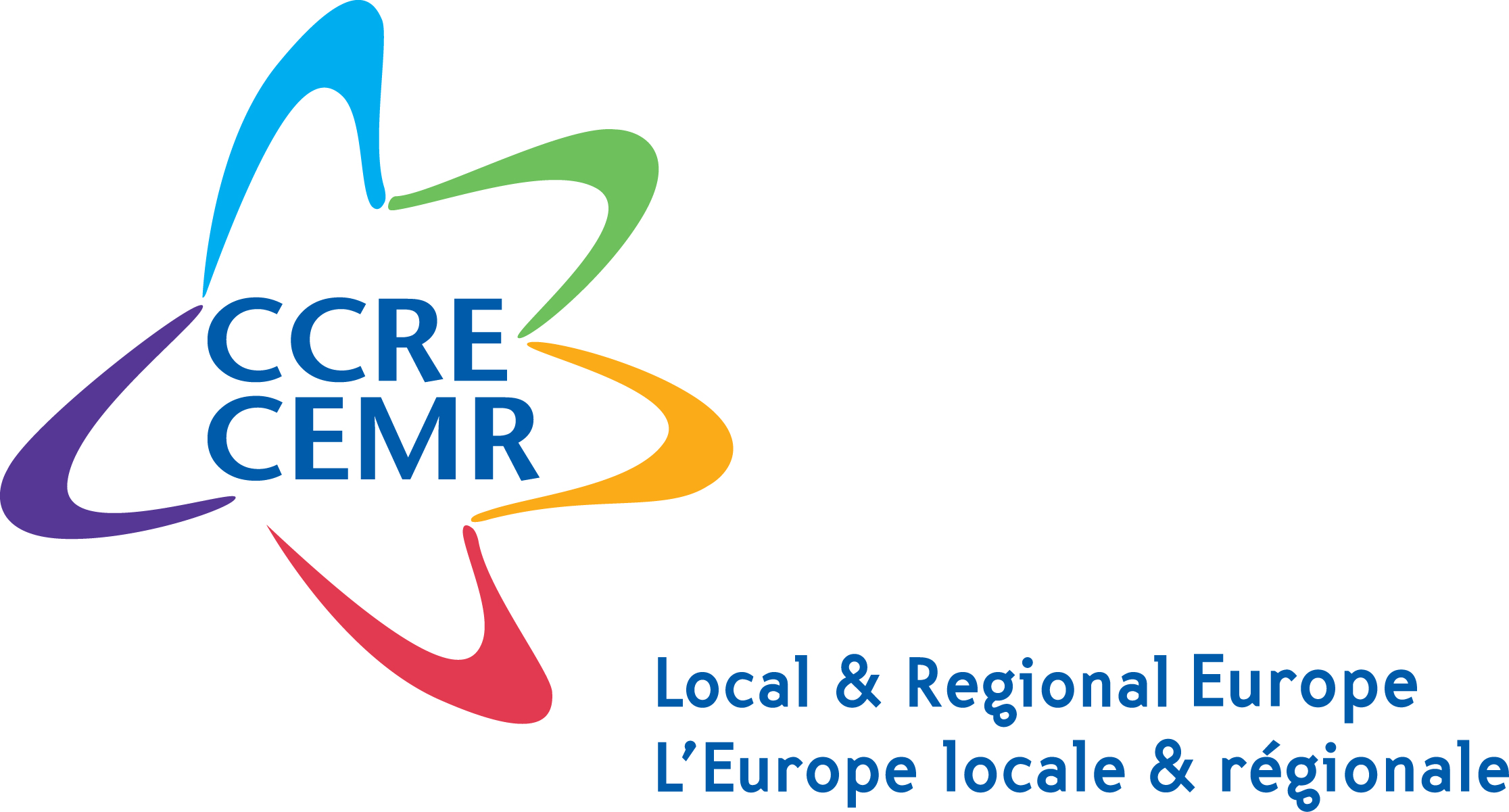 CEMR Logo - CEMR Property